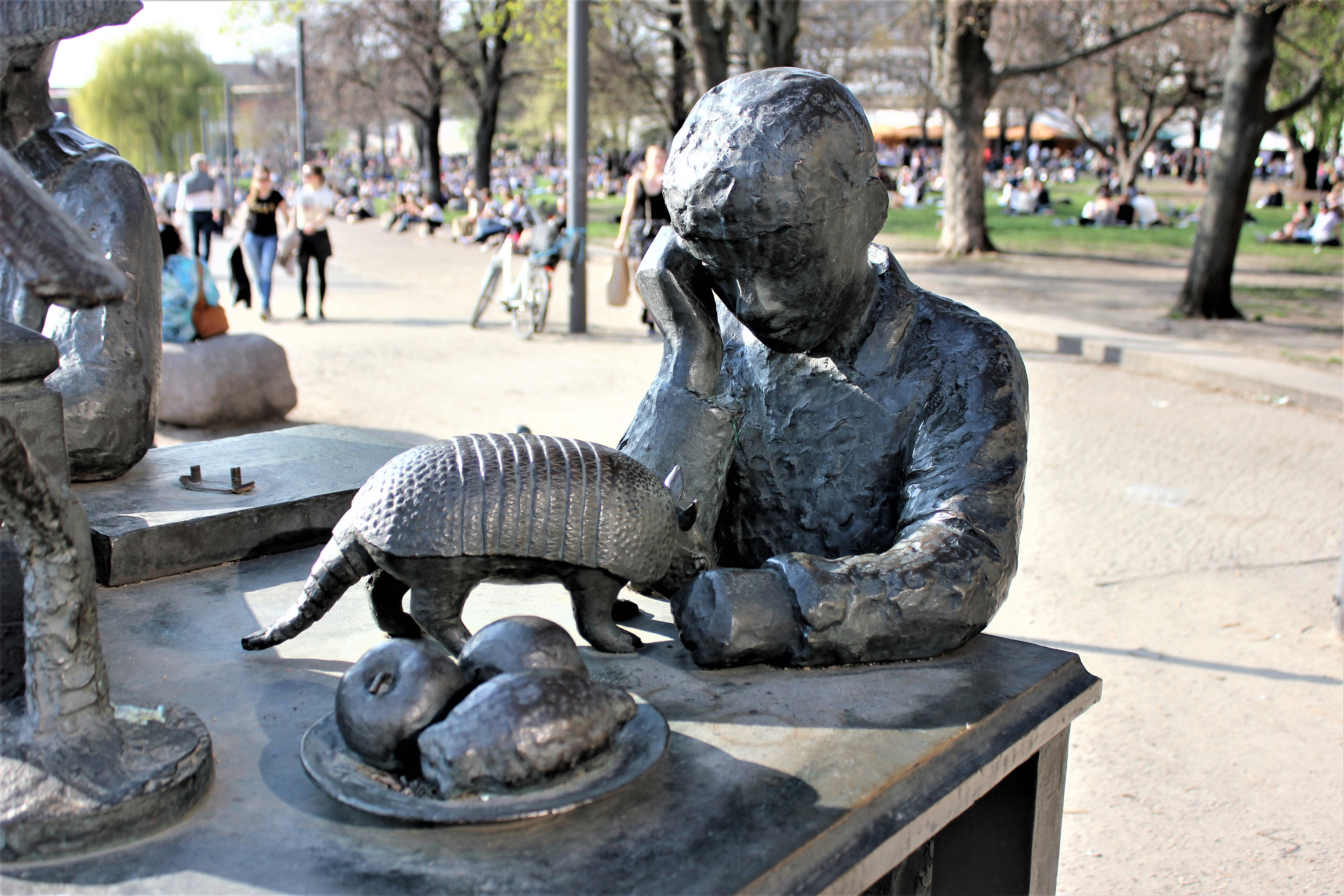 Bronze sculpture, memorial for German teacher, Friedrich Adolph Wilhelm Diesterweg (1790-1866), by sculptor, Robert Metzkes, Berlin-Mitte